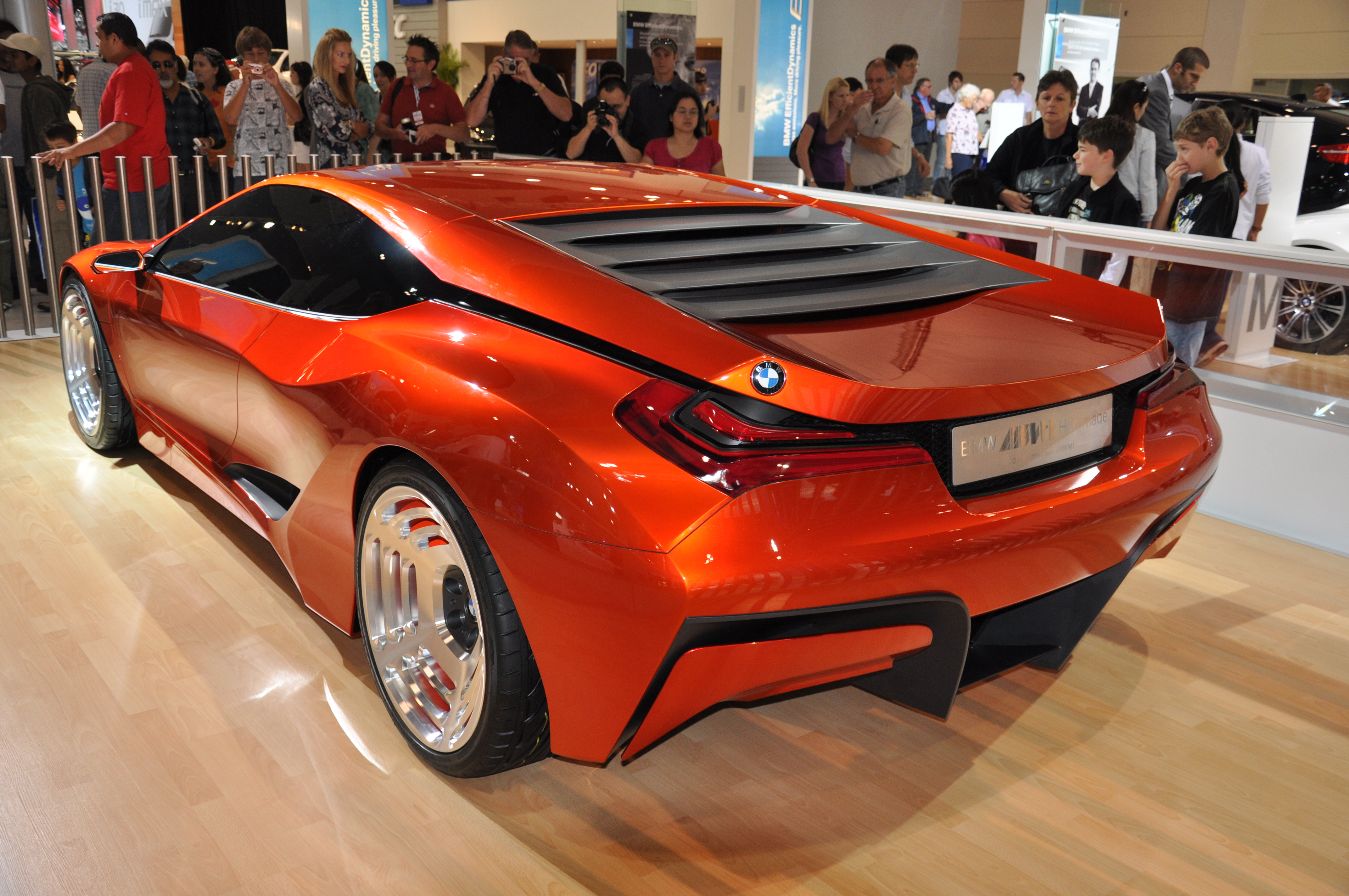 BMW M1 Hommage. Picture taken a Melbourne Car Show, 2009. Source by .au